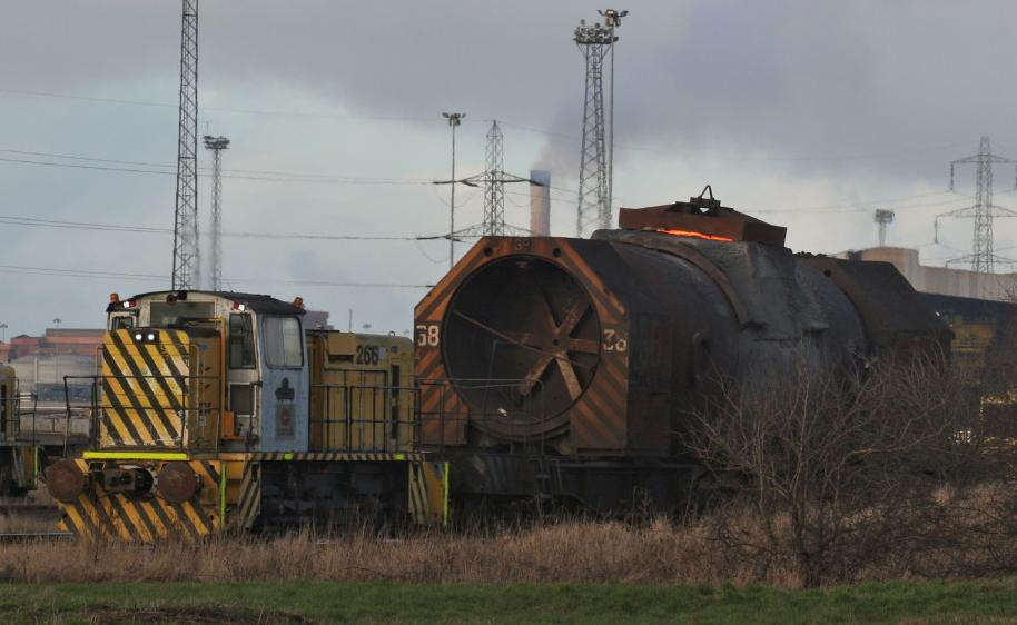 Cropped version of File:A late torpedo - .uk - 1719848.jpg